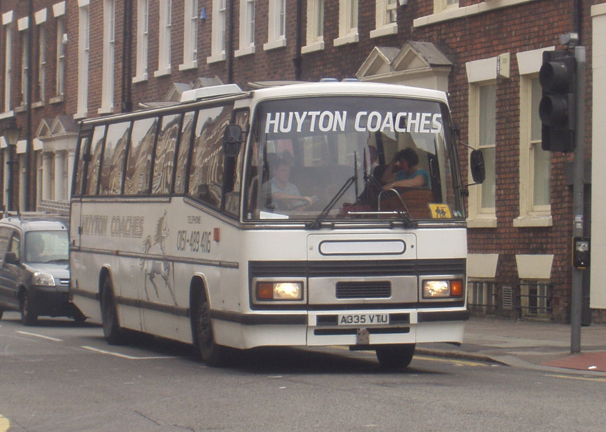 Bedford coach with Plaxton Paramount I 3200 bodywork. Rodney Street, Liverpool.